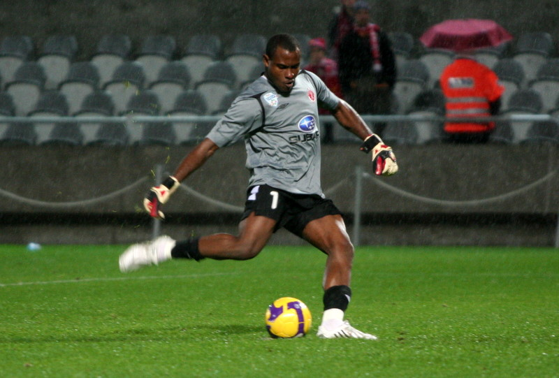 A picture of Hapoel's Vincent Enyeama, while kicking a penalty shoot.